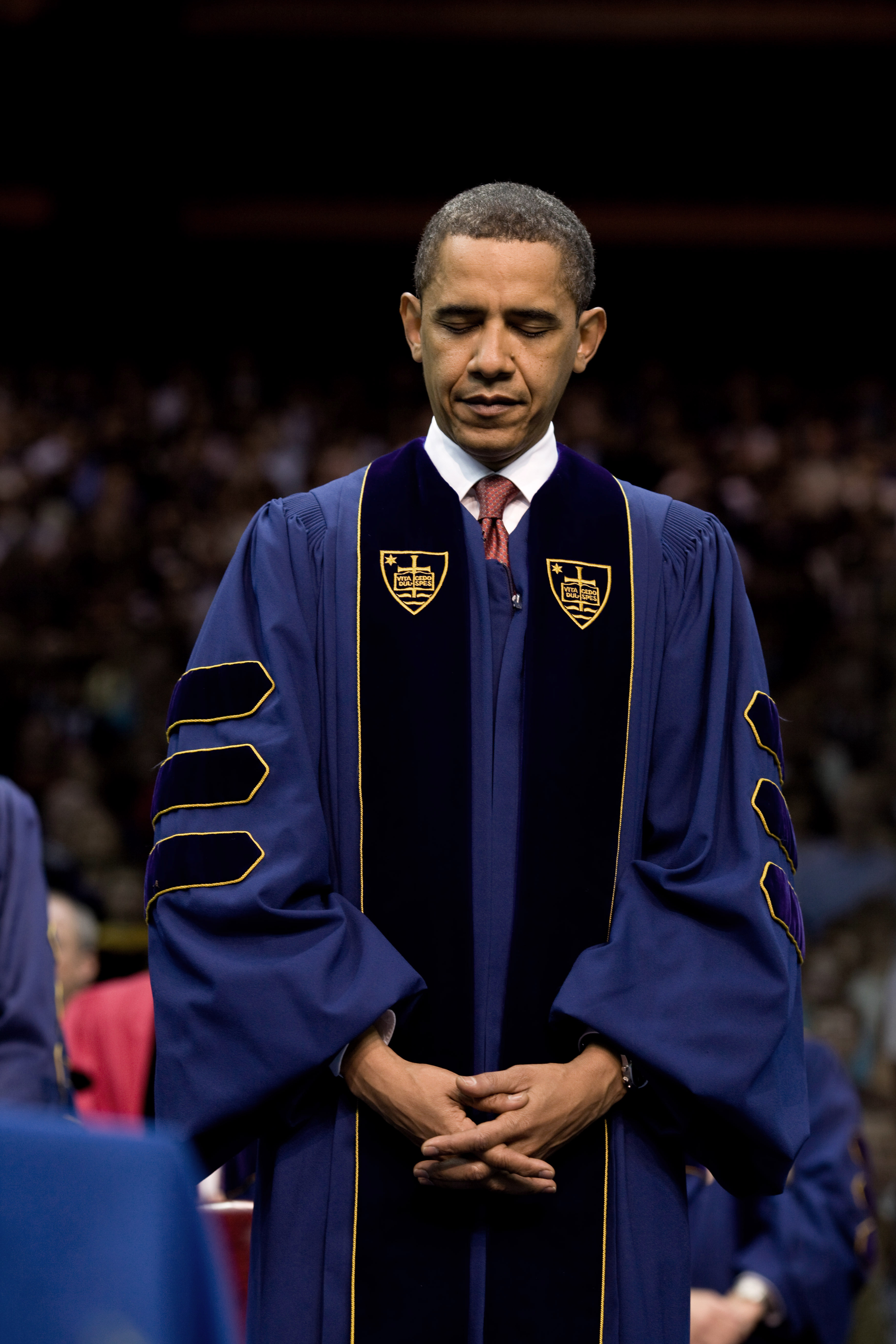 President Barack Obama bows his head during the invocation at the University of Notre Dame's commencement ceremony, May 17, 2009. (Official White House Photo by Pete Souza)